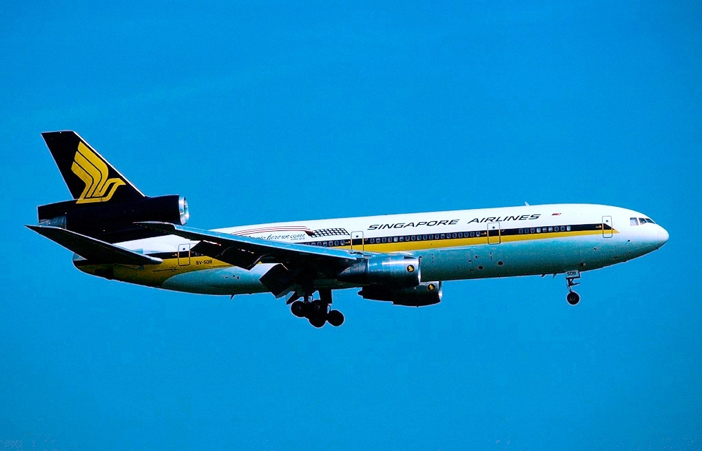 Singapore Airlines McDonnell Douglas DC-10-30